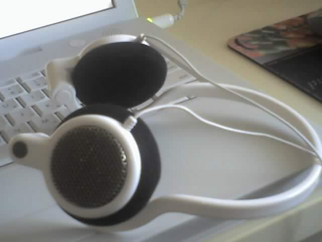 Grado iGrado Street-Style Headphones (in White)